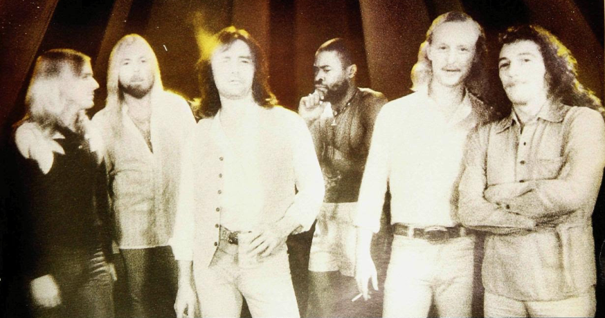 Trade ad for The Allman Brothers Band's album Enlightened Rogues.